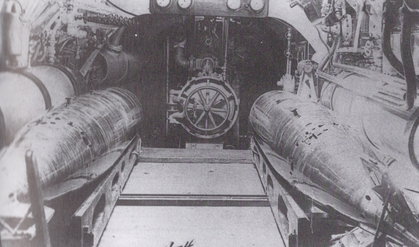 The breech of the sole torpedo tube of the United States Navy submarine . Two torpedoes are on wooden skids in the foreground. The skids slid across the deck for loading.